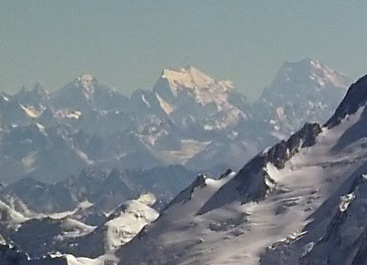 Nanga Parbat from the air: Diamir (west) face. In the background left of Nanga Parbat some peaks of the Karakorams: Saltoro Kangri, K6 and probably Sherpi Kangri(?) (right to left)